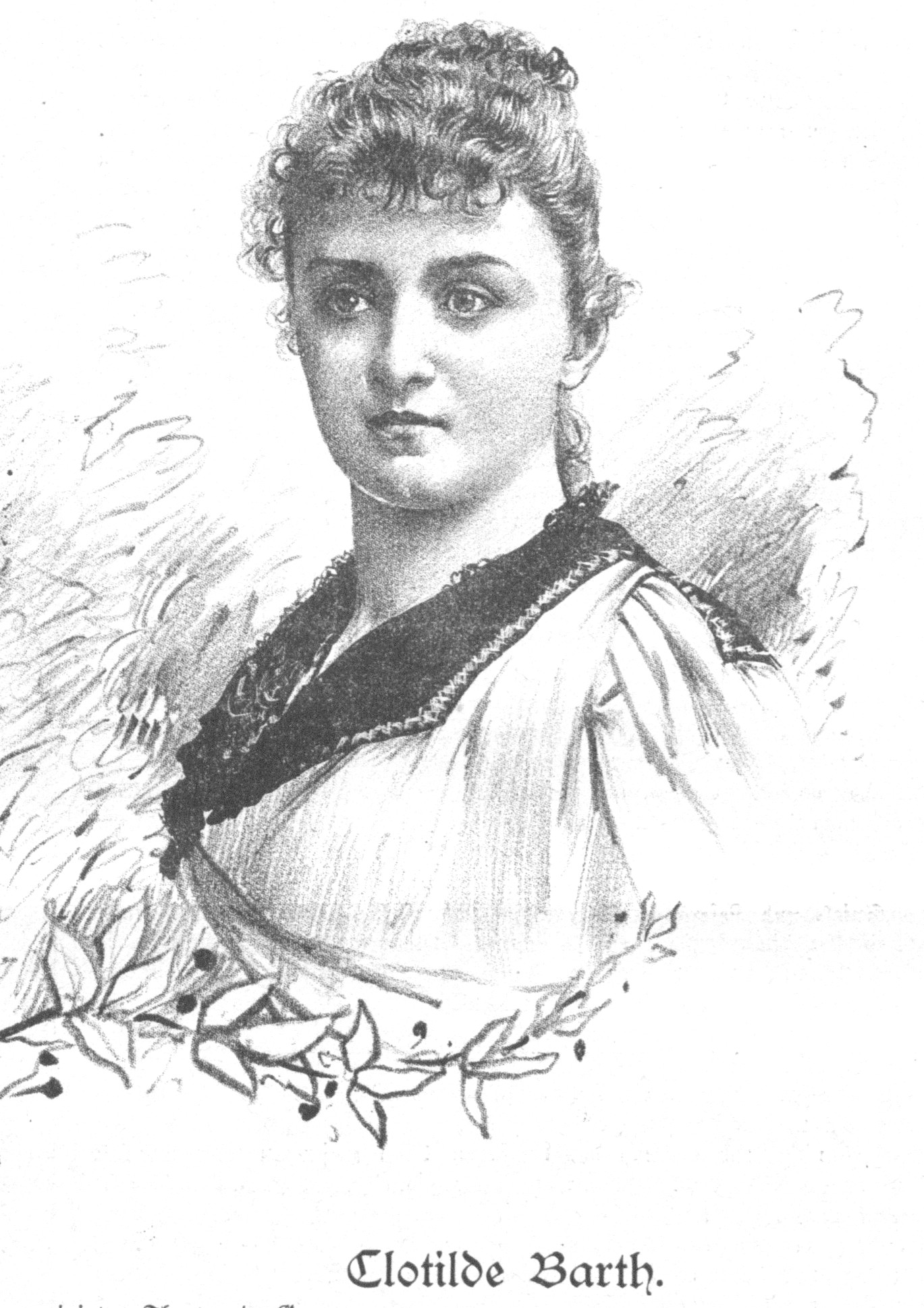 Portrait of Clotilde Barth (1867-??), German actress.